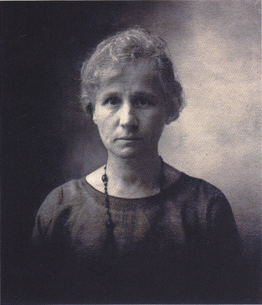 Studio portrait of Blanche Lazzell, New York, circa 1908.